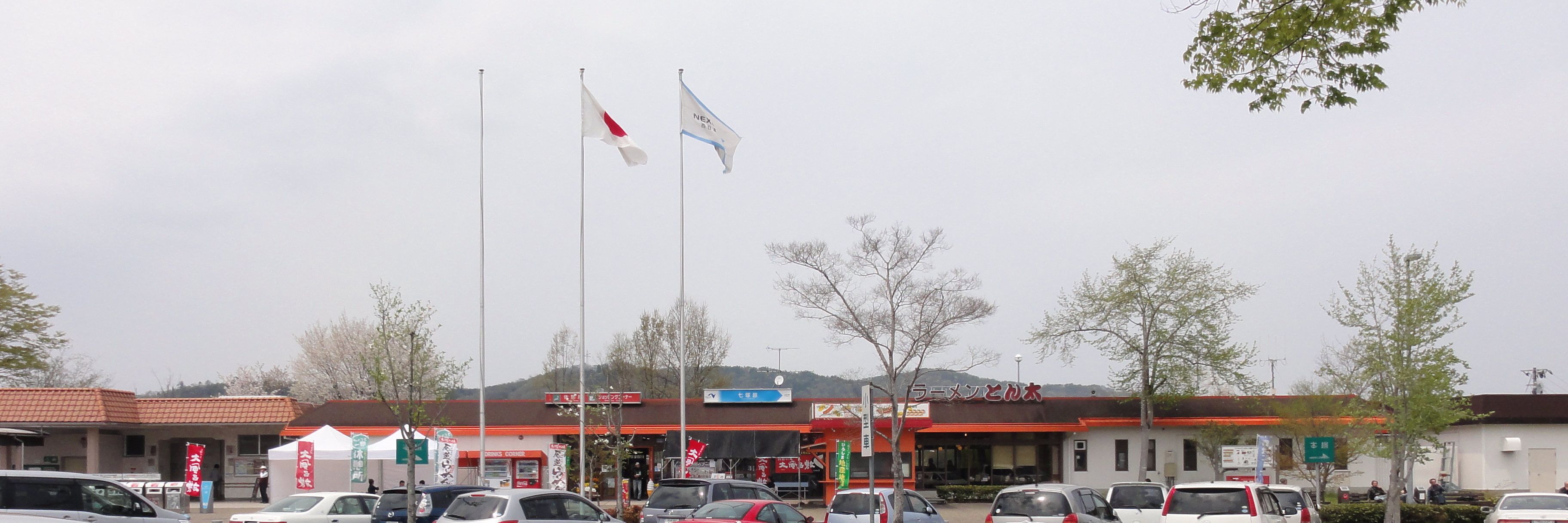 Nanatsukahara Service Area,Hiroshima prefecture,Japan